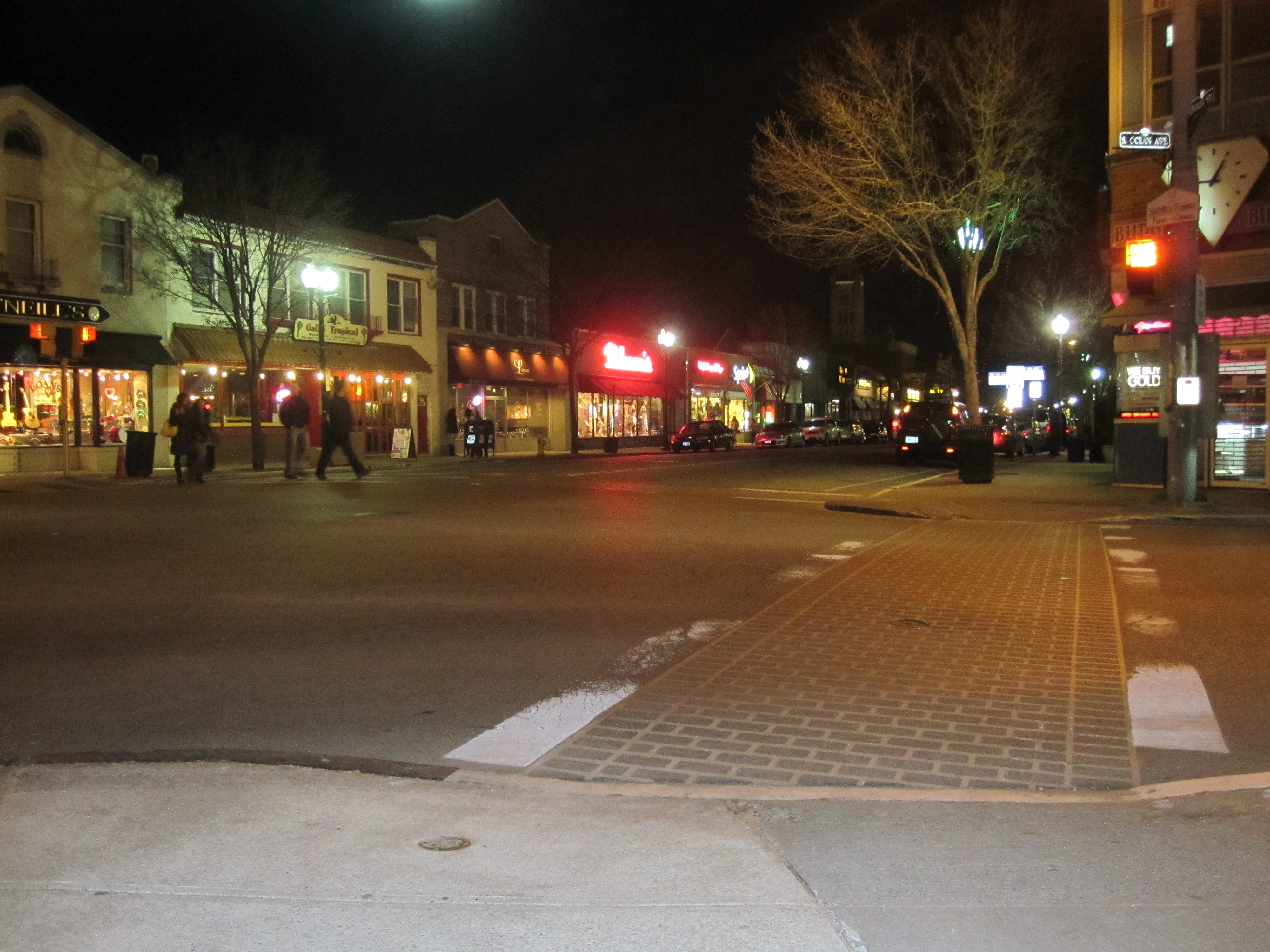 P-Town Main Street USA